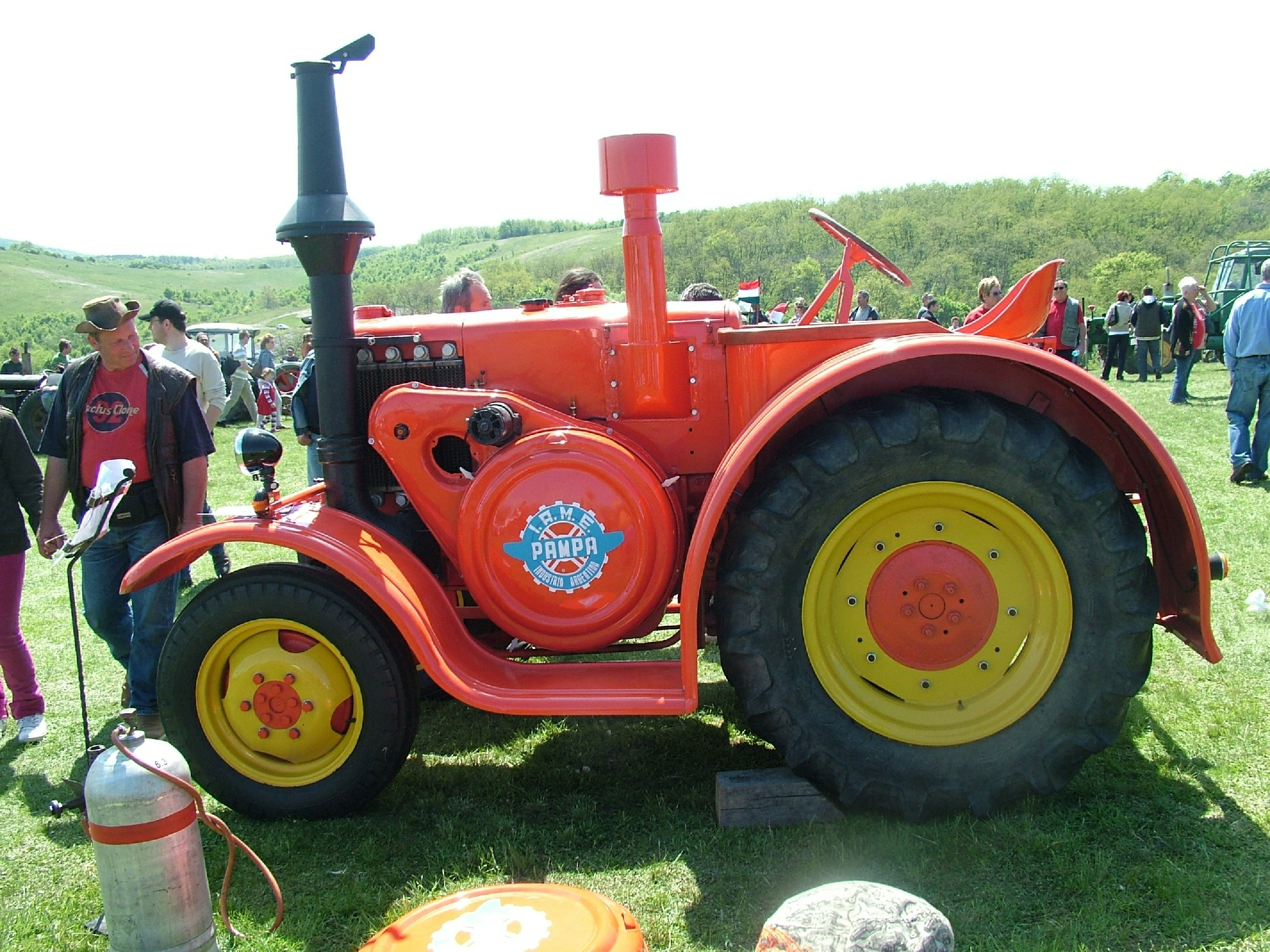 I.A.M.E. Pampa tractor at Traktormajális 2011, Bokor, Hungary